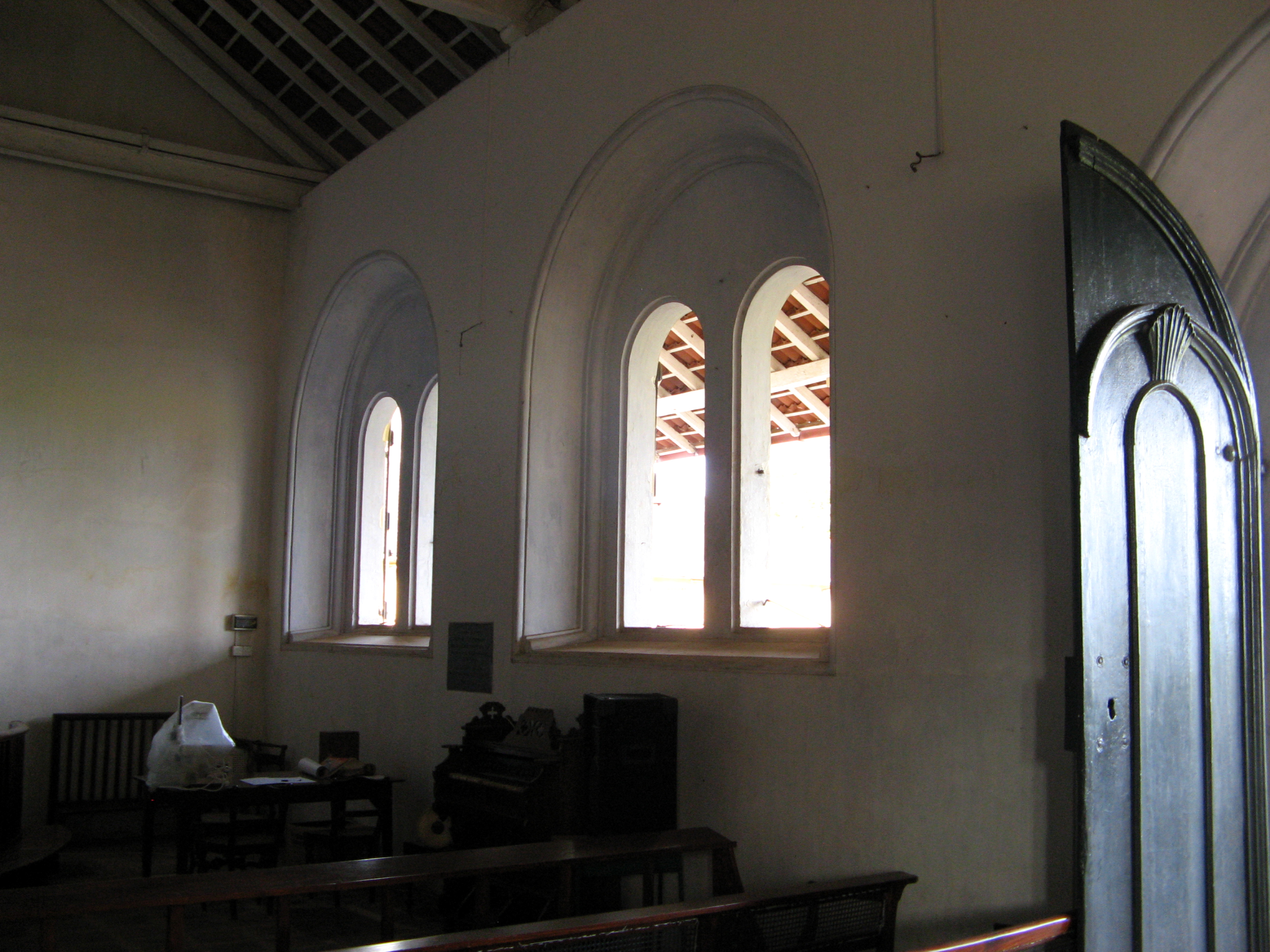 The unadorned interior is decorated only by whitewash, and lit by shuttered double round-arched windows. The pump organ seen here is antique, and dates to the Dutch Colonial Period.